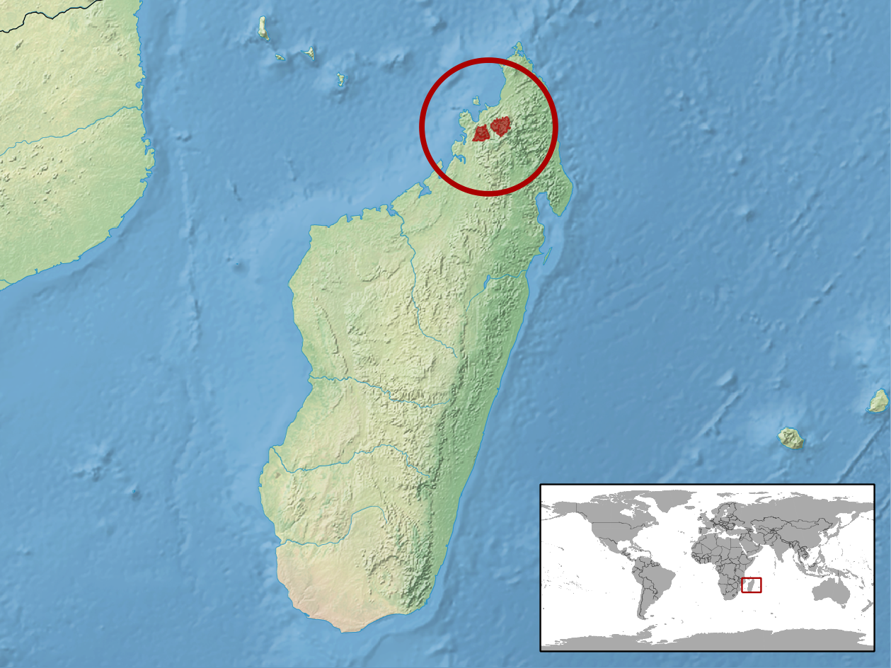 geographic distribution of Brookesia lineata (Native: Madagascar)